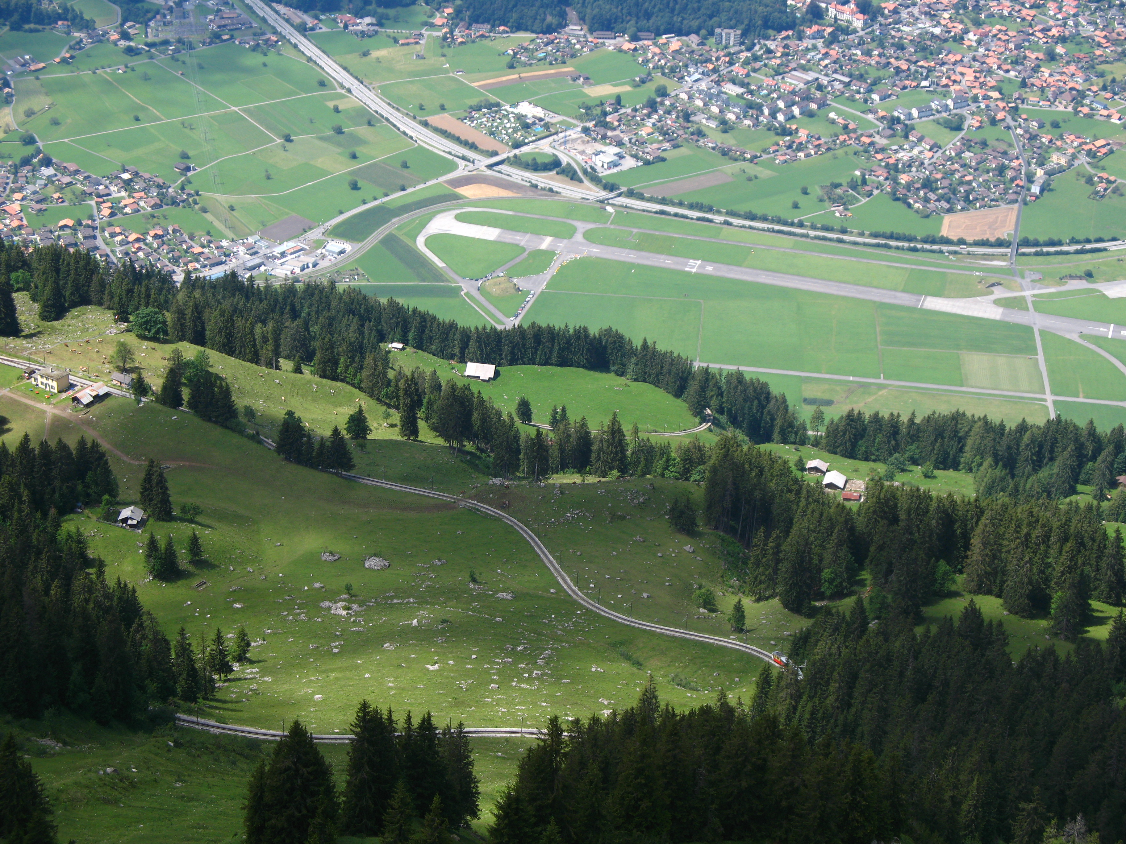 Matten and the Schynige Platte Railway viewed from Schynige Platte, Switzerland